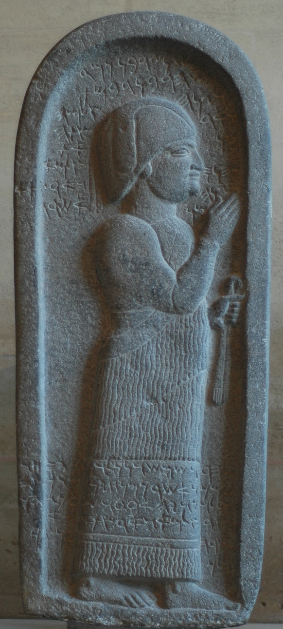 Basalt funeral stele bearing an Aramaic inscription, ca. 7th century BC. Found in Neirab or Tell Afis (Syria).